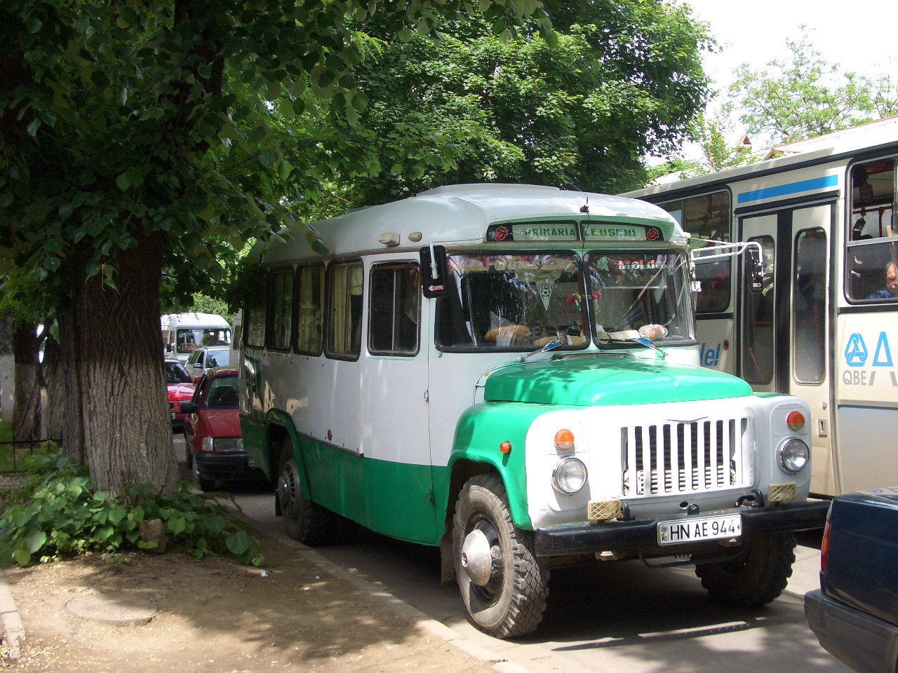 A schoolbus KAvZ-685 in Chisinau, Moldova.